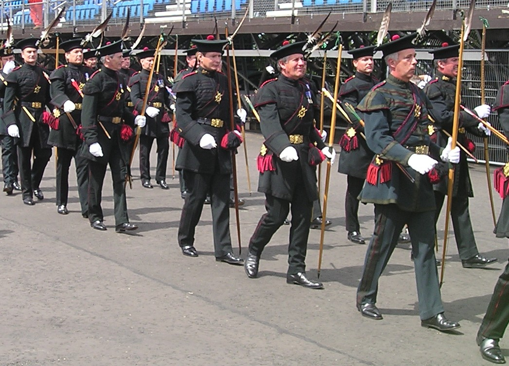 The Royal Company of Archers (The Queen's Bodyguard for Scotland) on the Esplanade outside Edinburgh Castle, shortly after providing a guard at an installation service for new knights of the Order of the Thistle